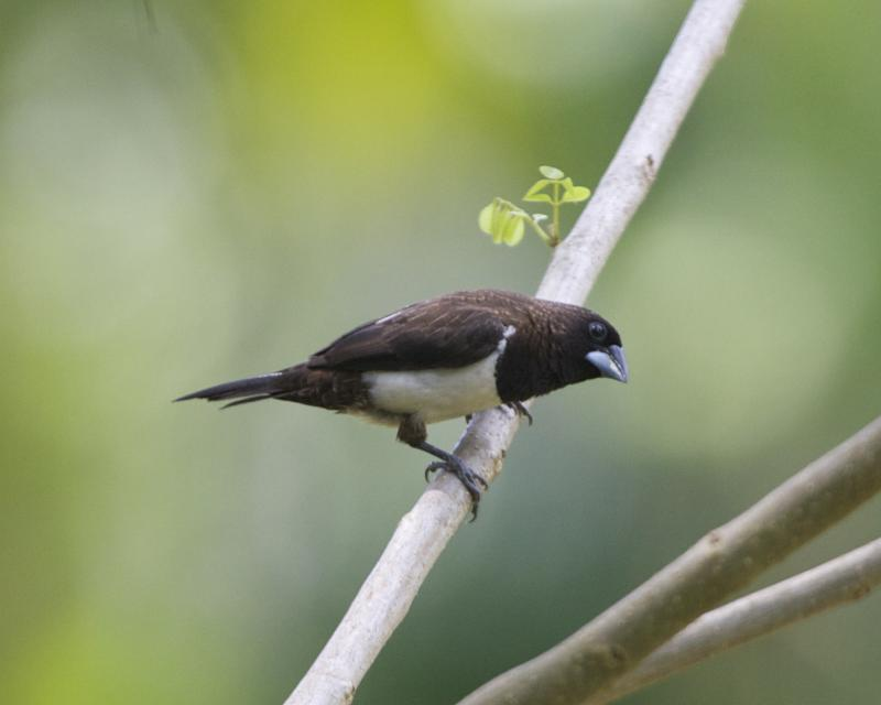 White-backed munia Indian White-backed munia Lonchura striata Nominate race, Lonchura striata striata Lunuganga, Near Bentota, Sri Lanka 8th. February 2011 Distribution: 690V0113